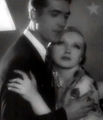 Screenshot from Polish motion picture "Szpieg w masce" from 1933 (the movie has been shown in the U.S. in 1934)